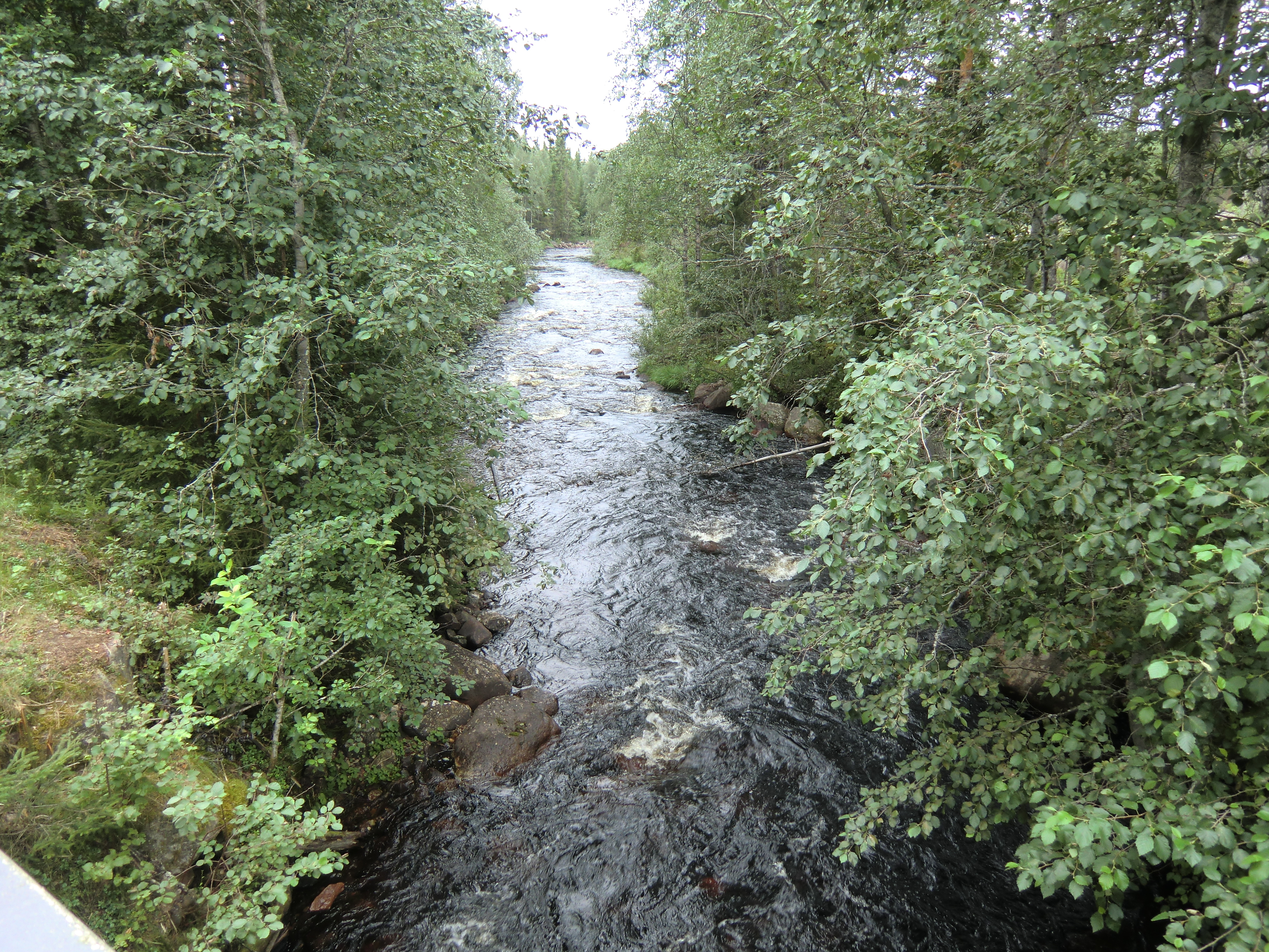 Rotbergsåa in Hedmark, Norway.